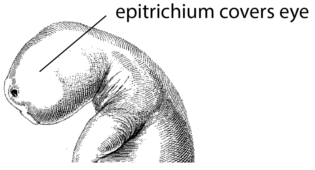 Standard Event System character depiction